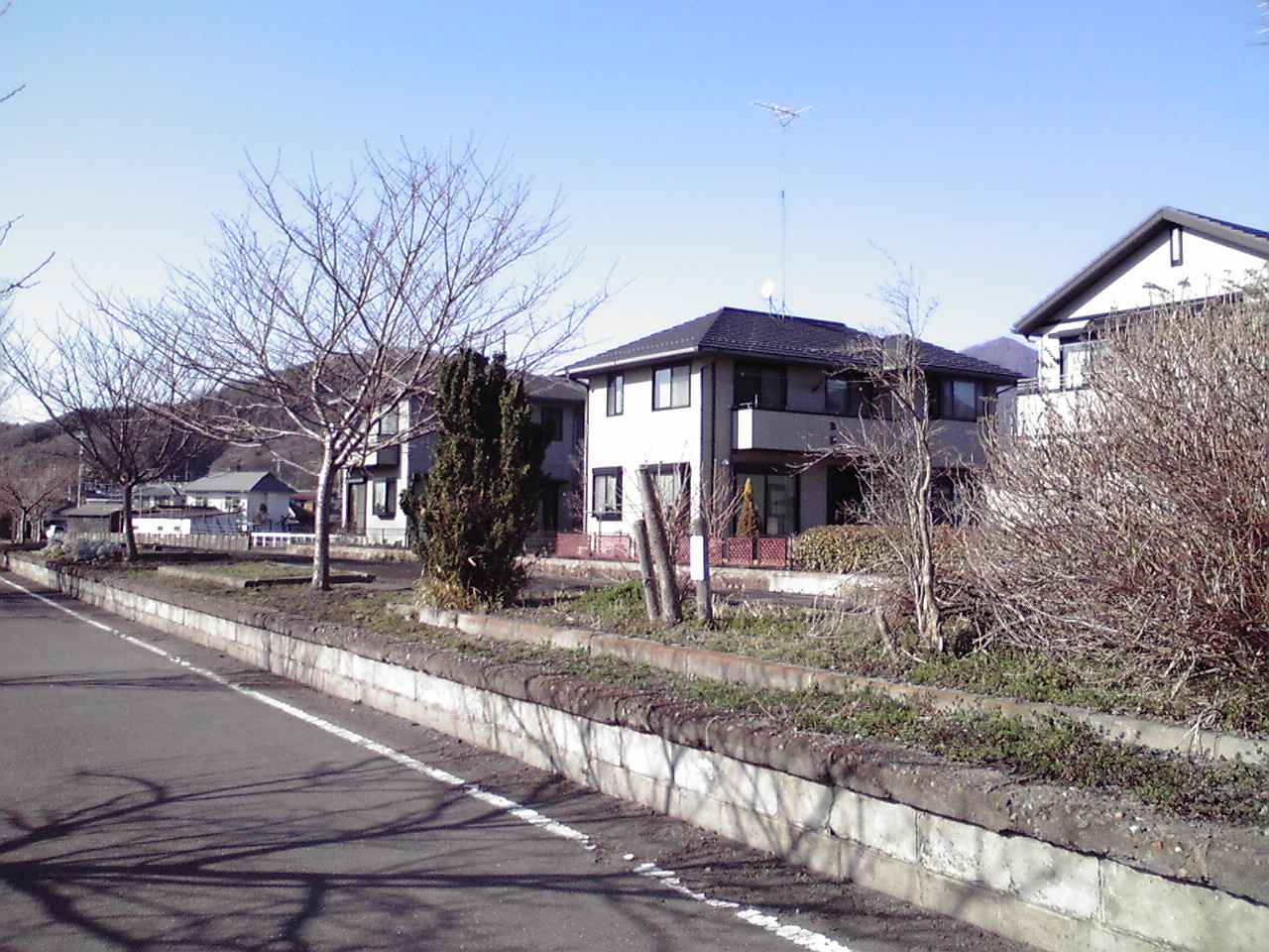 This is a site of Hitachi-Hojo station in Japan. This station belonged Tsukuba railway for 69 years.